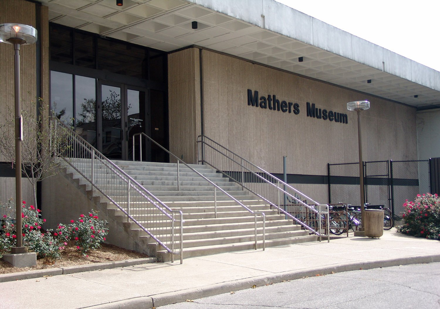 Western side of IUB’s MMWC.